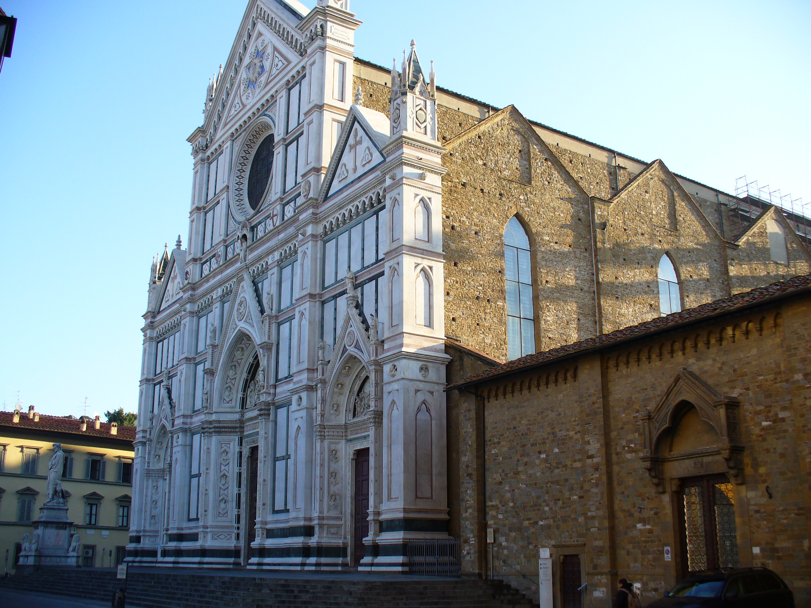 Basilica Santa Croce Firenze